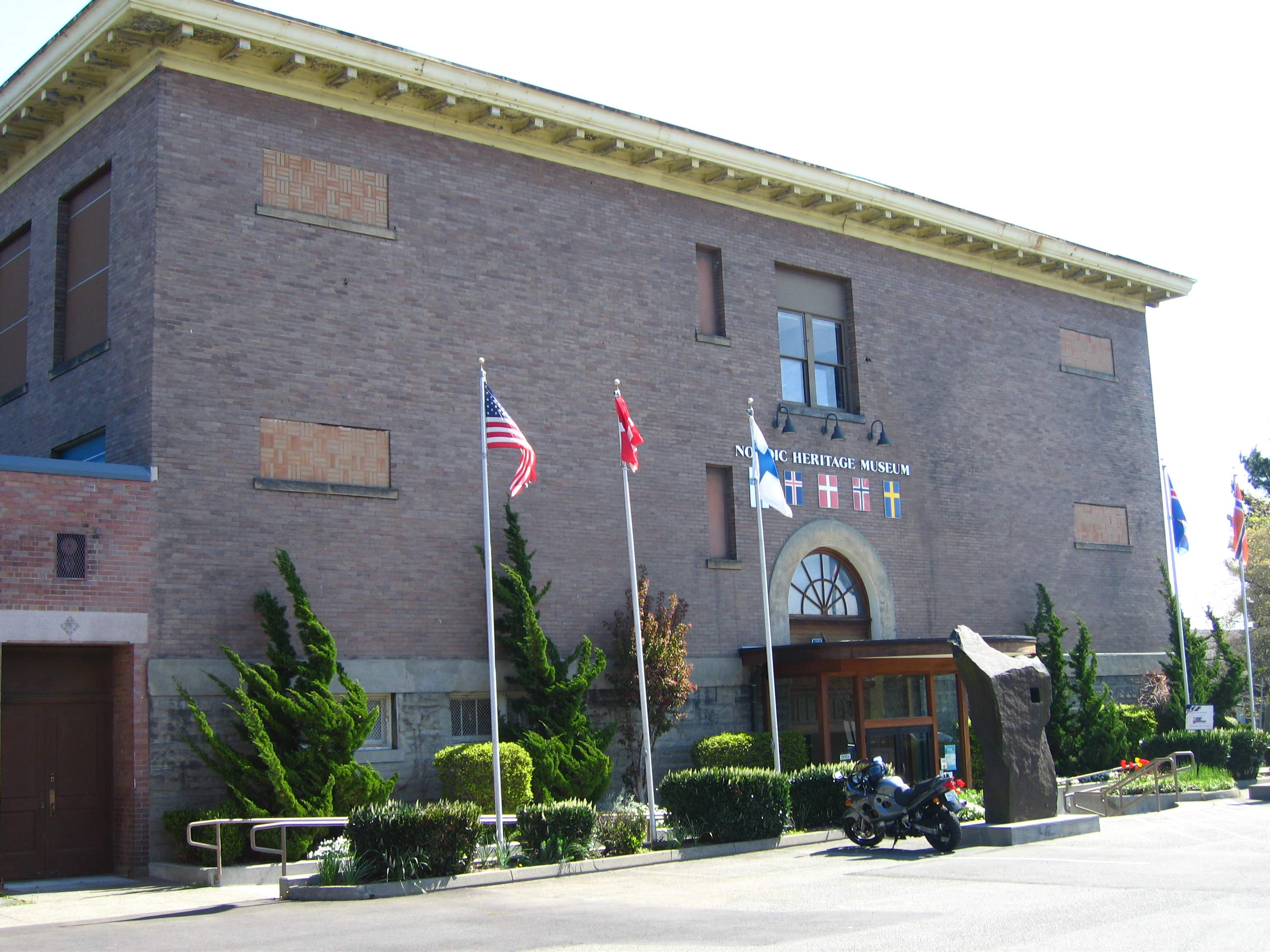 Nordic Heritage Museum, Ballard, Seattle. Exterior.